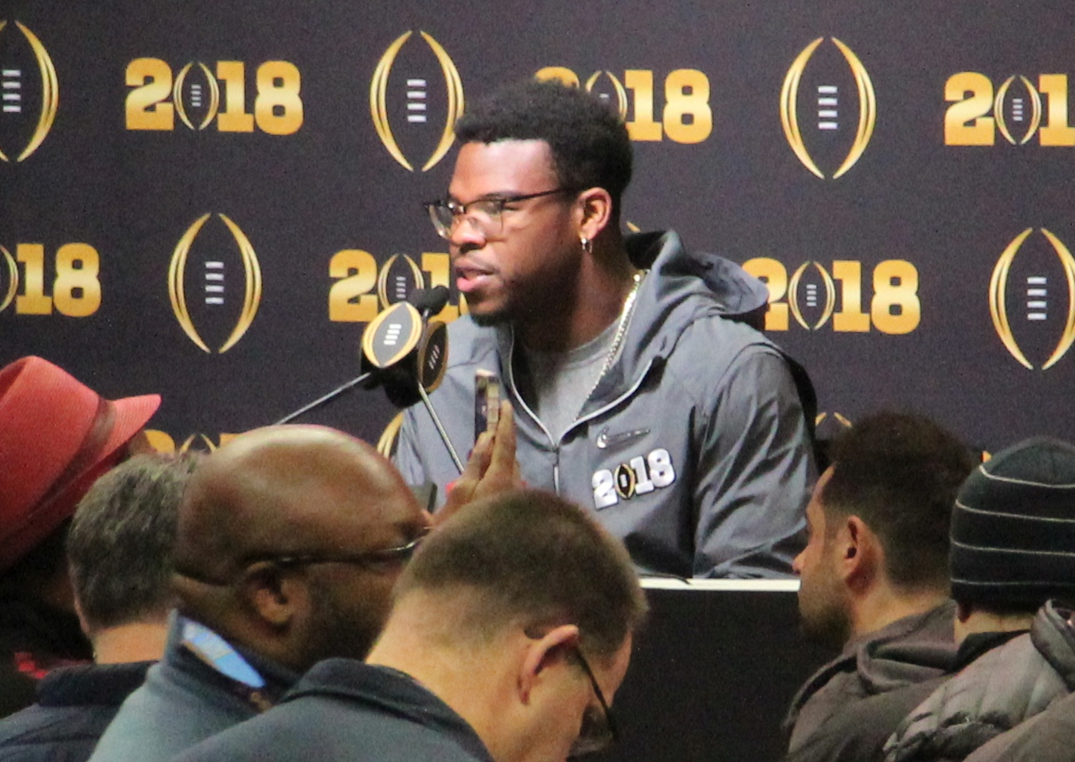 Damien Harris at media day, 2018